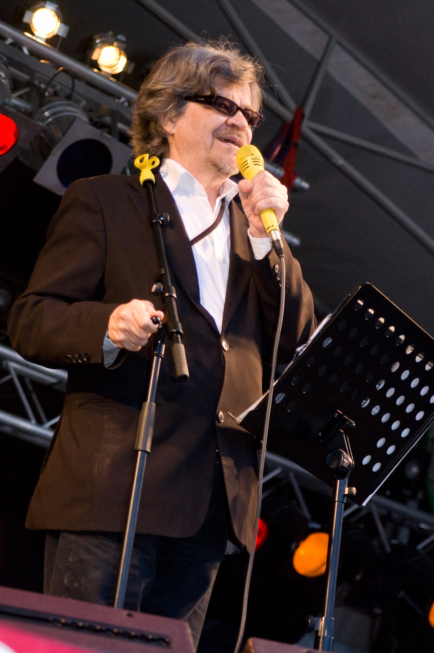 M. A. Numminen performing at the Ilosaarirock festival on the 11th of July 2008 in Joensuu, Finland.